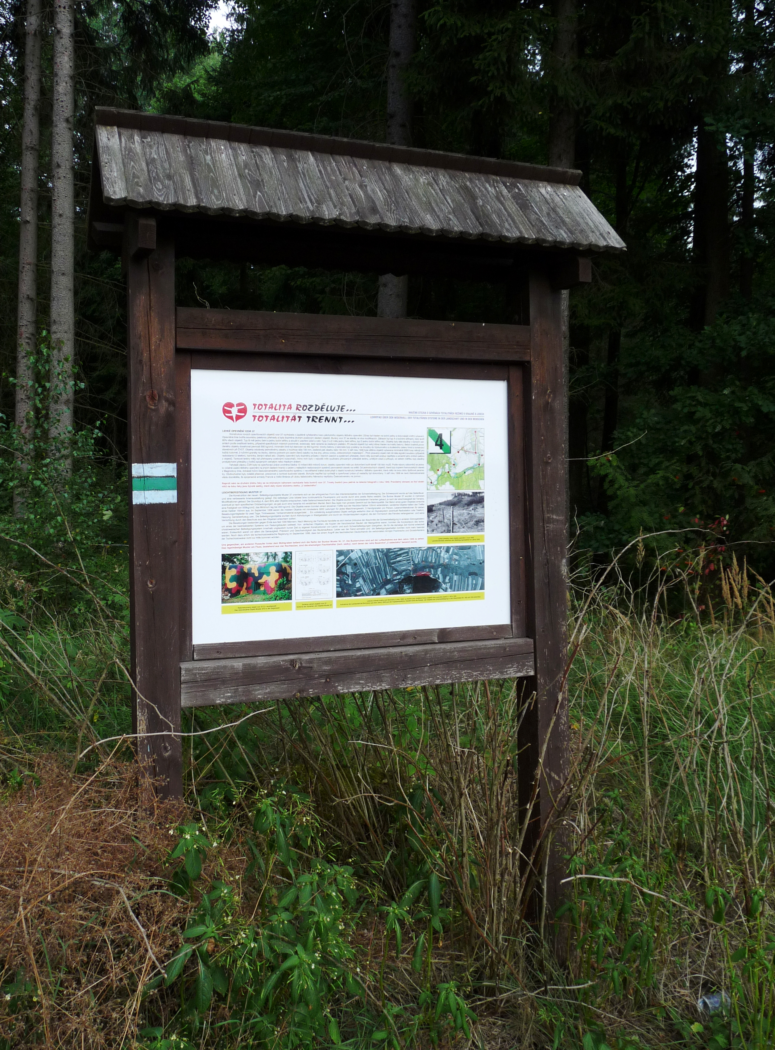 Information board of the educational trail Totalita rozděluje near the town of Borovany, České Budějovice District, Czech Republic.